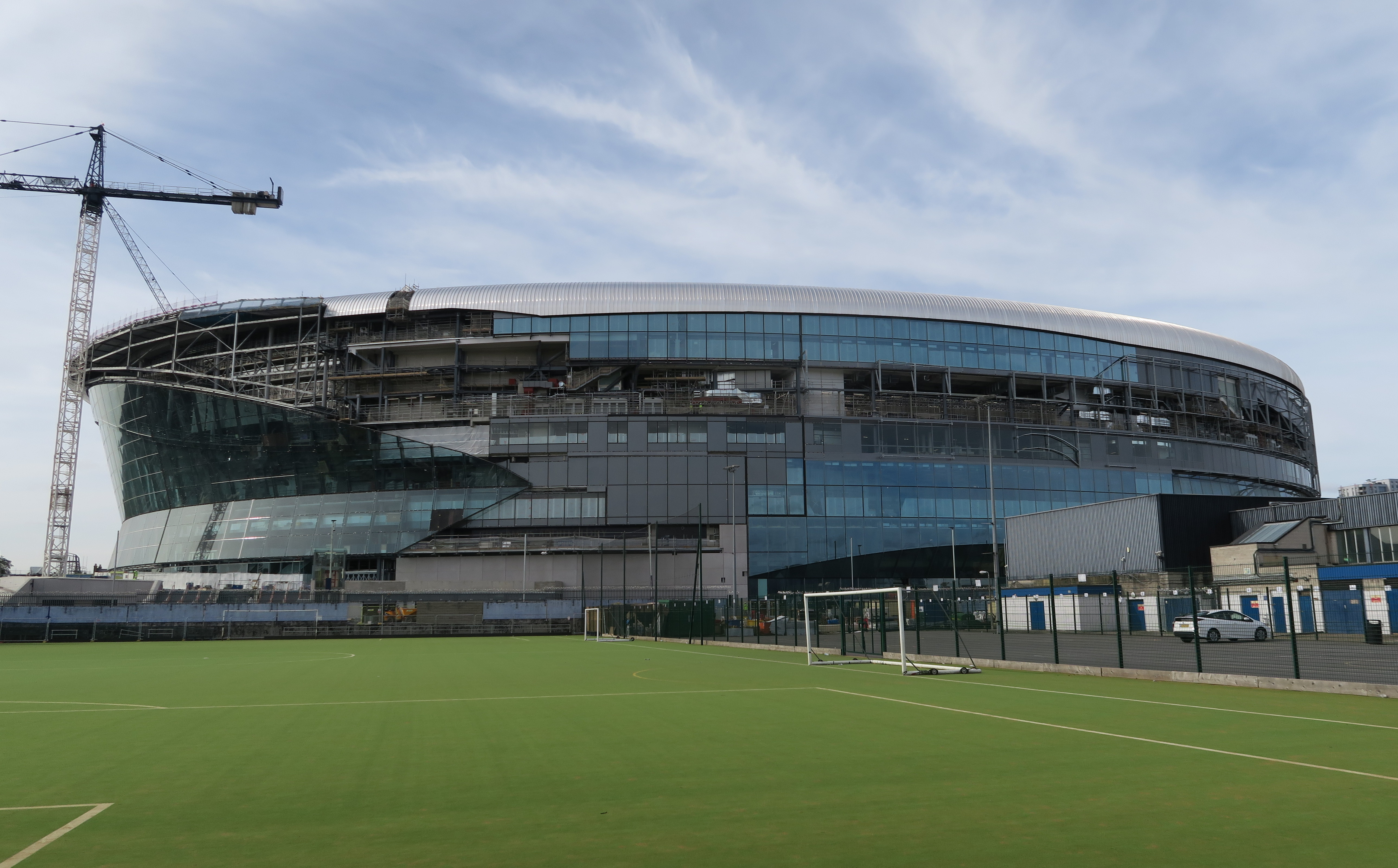 View of Tottenham Hotspur Stadium from the East, under construction in October 2018